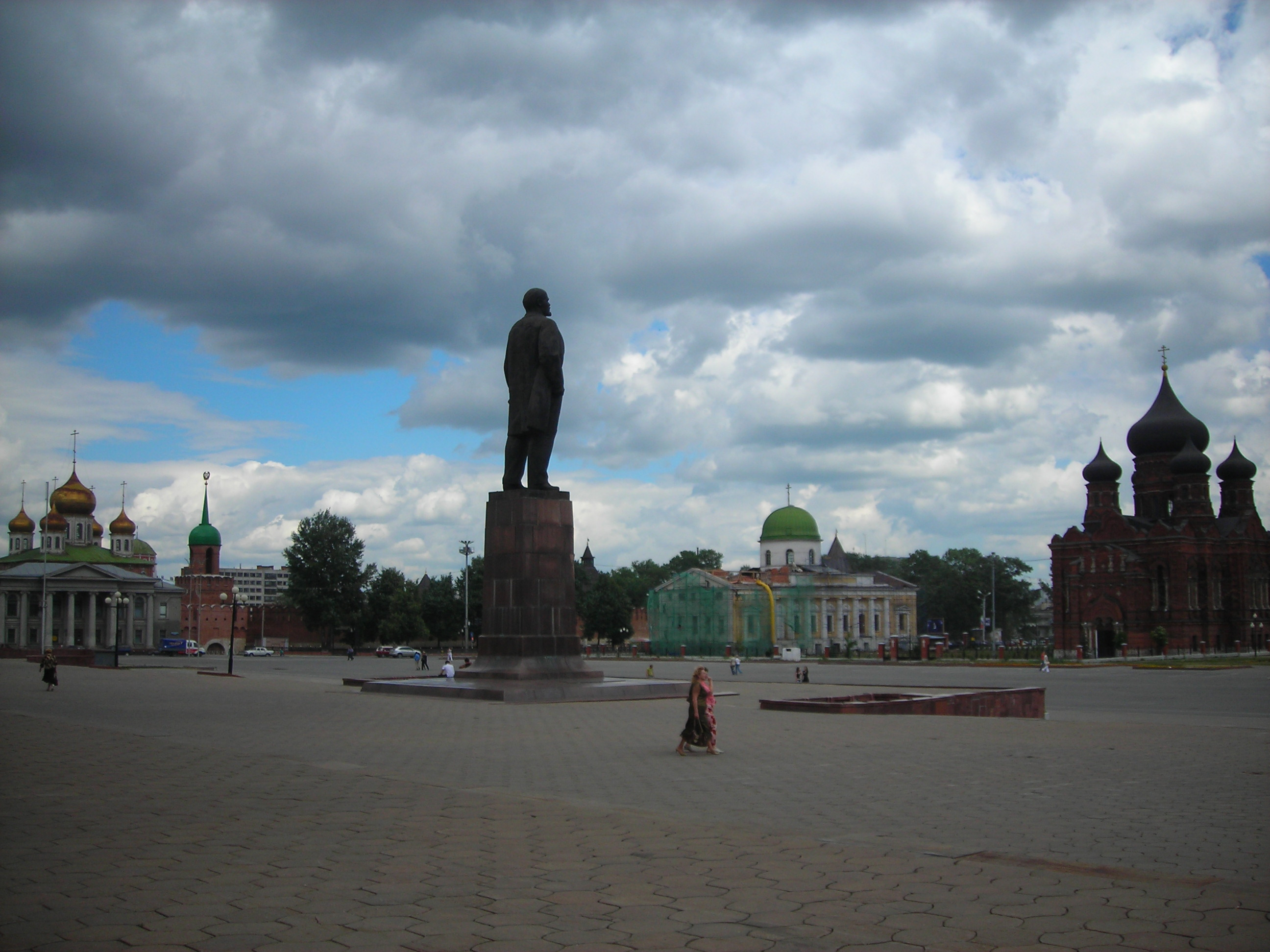 Ploschad Lenina (Lenin Square) in Tula